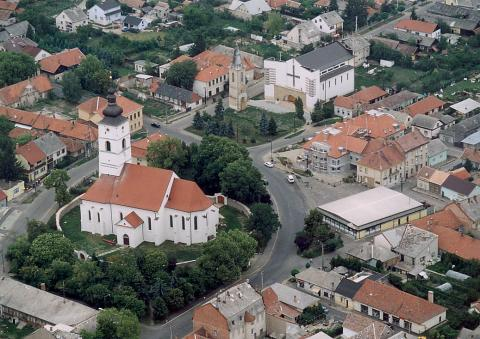 Main square of Szikszó, Hungary, aerialphotography